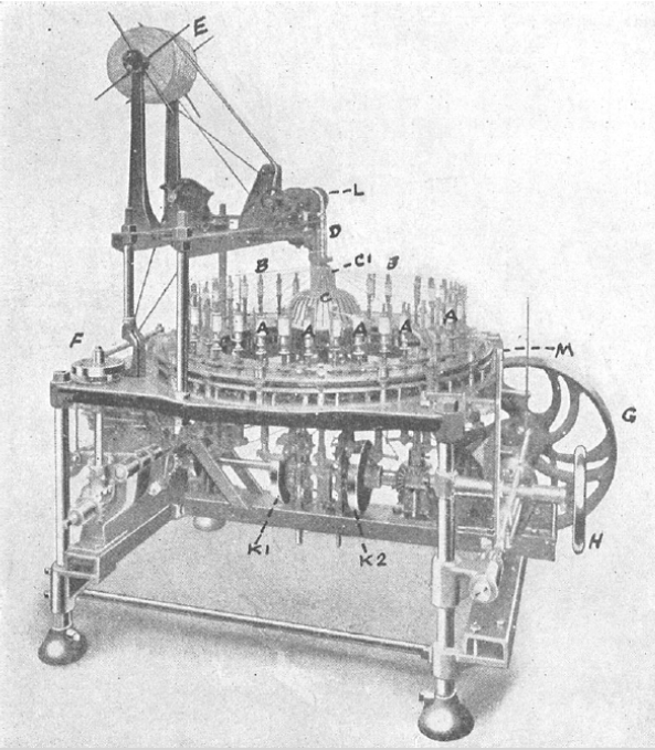 Barmen lace machine, showing its workings A. Spindle set in top plate B. Yarn threaded upto mandrill C. Beater dome C1. Beater knives D. Mandrill (varible settings) E. Finished Lace F. Jacquard G. Pulley for drive belt H. Hand wheel K. Beater cams L. Take-up rolls M. Handle to engage drive belt